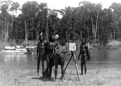 [Papua and New Guinea] Timid natives one hundred and twelve [miles] up the Ramu River - New Guinea, Madang, Ramu River - Wm J Jackson